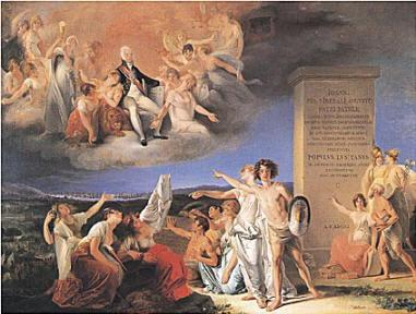 Allegory of the virtues of King João VI